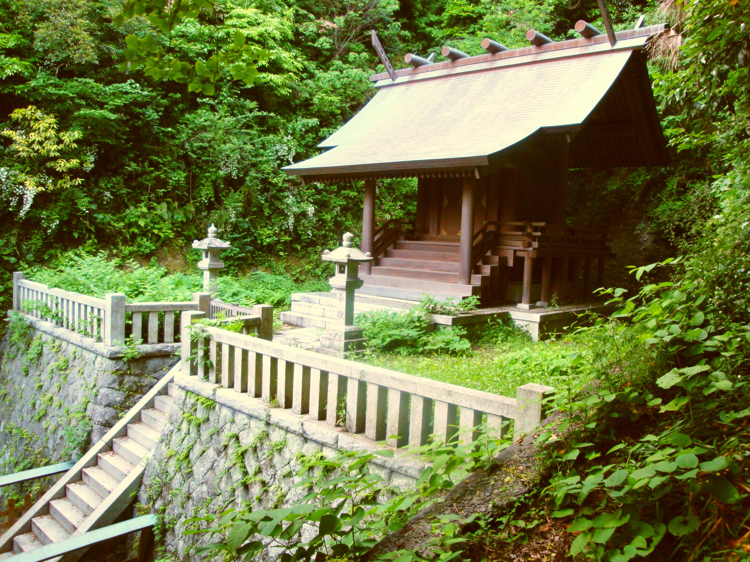 Amanawa Shinmei Jinja Shrine -- the oldest shrine in Kamakura, founded in 710 by Priest Gyoki (668-749) and Tokitada Someya. Main object of worship is Sun Goddess Amaterasu. The honden of the shrine.